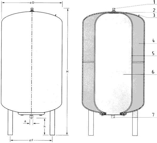 units of hydralic tank